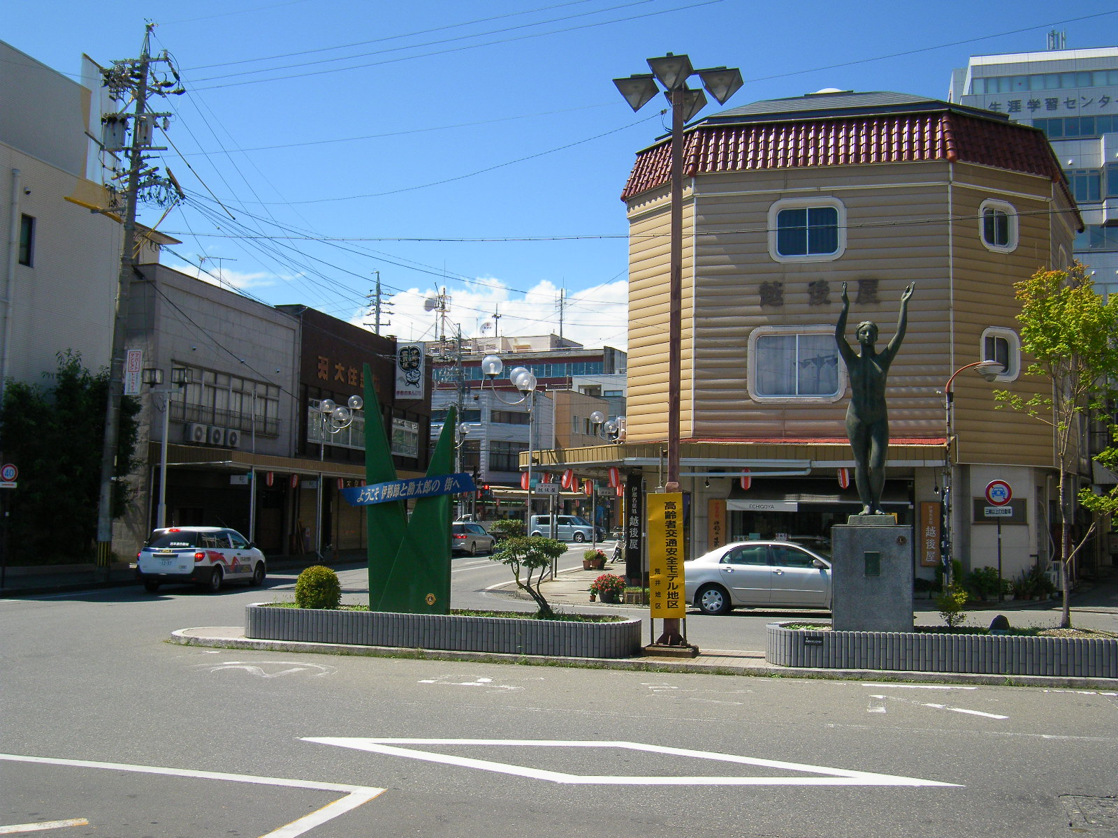 Front of Inashi Station. Ina, Ina, Nagano prefecture, Japan.